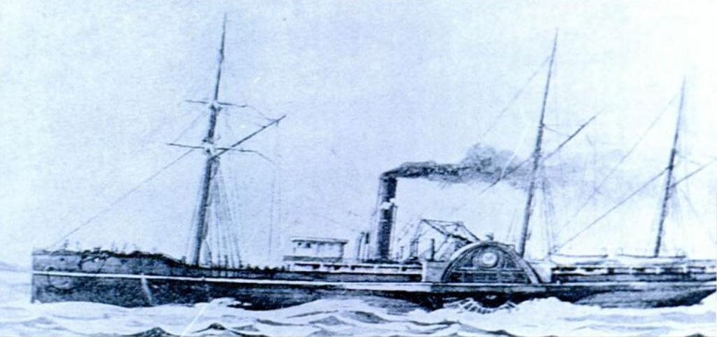 Picture of the 19th century steam ship SS Pacific, which in 1875 collided with the Orpheus and sank near Cape Flattery, WA, USA. From a painting commissioned in the ship's early career.